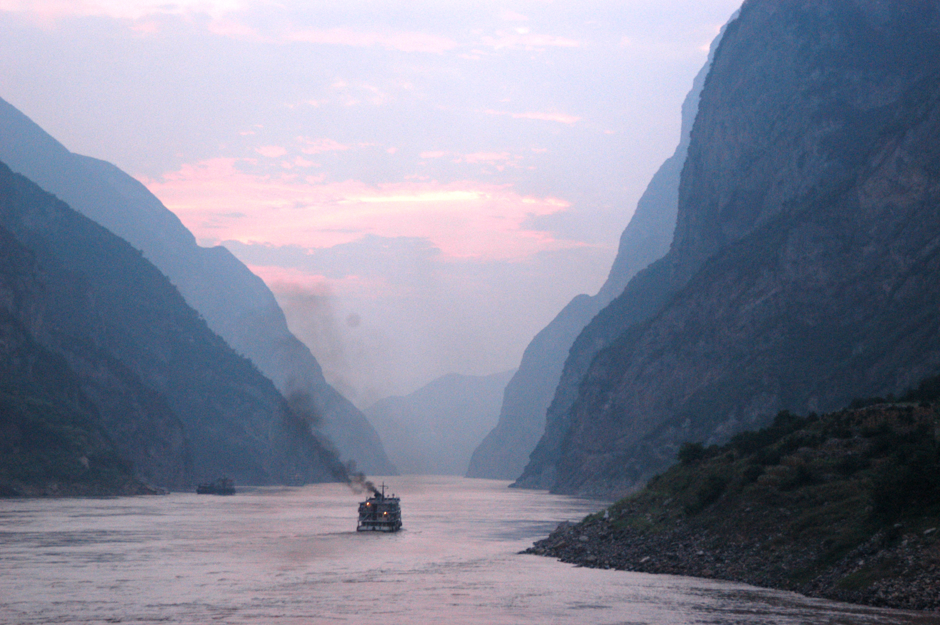 Dusk on Chang Jiang (Yangtze)Dusk on the River